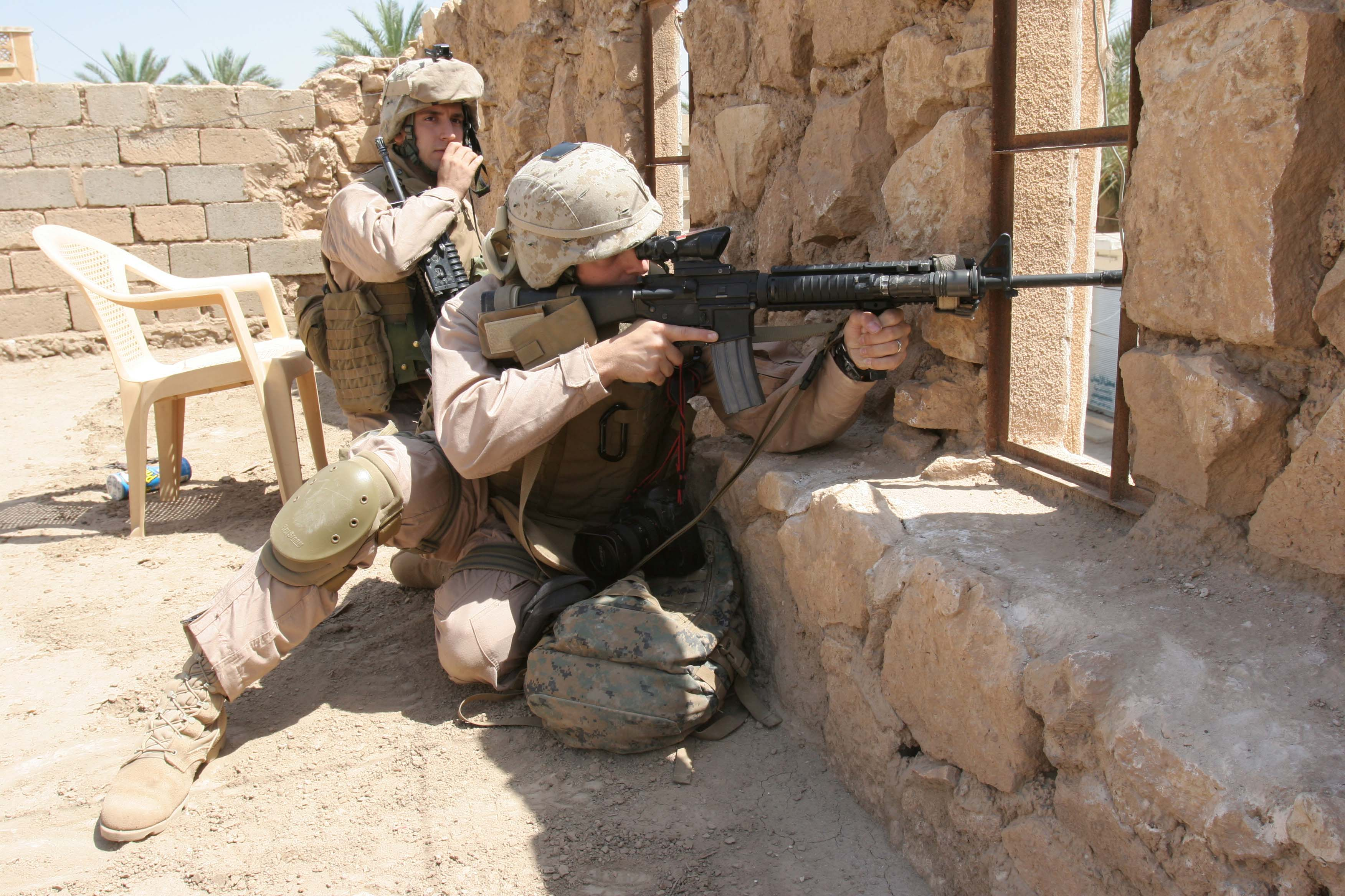 U.S. Marine Corps Cpl. Joseph Digloramo (right) provides overhead security while seeking cover from indirect small-arms fire during an operation to prevent and disrupt insurgency activity in Ar Ramadi, Iraq, on April 25, 2006. Digloramo is assigned as a combat correspondent with India Company, 3rd Battalion, 8th Marines.